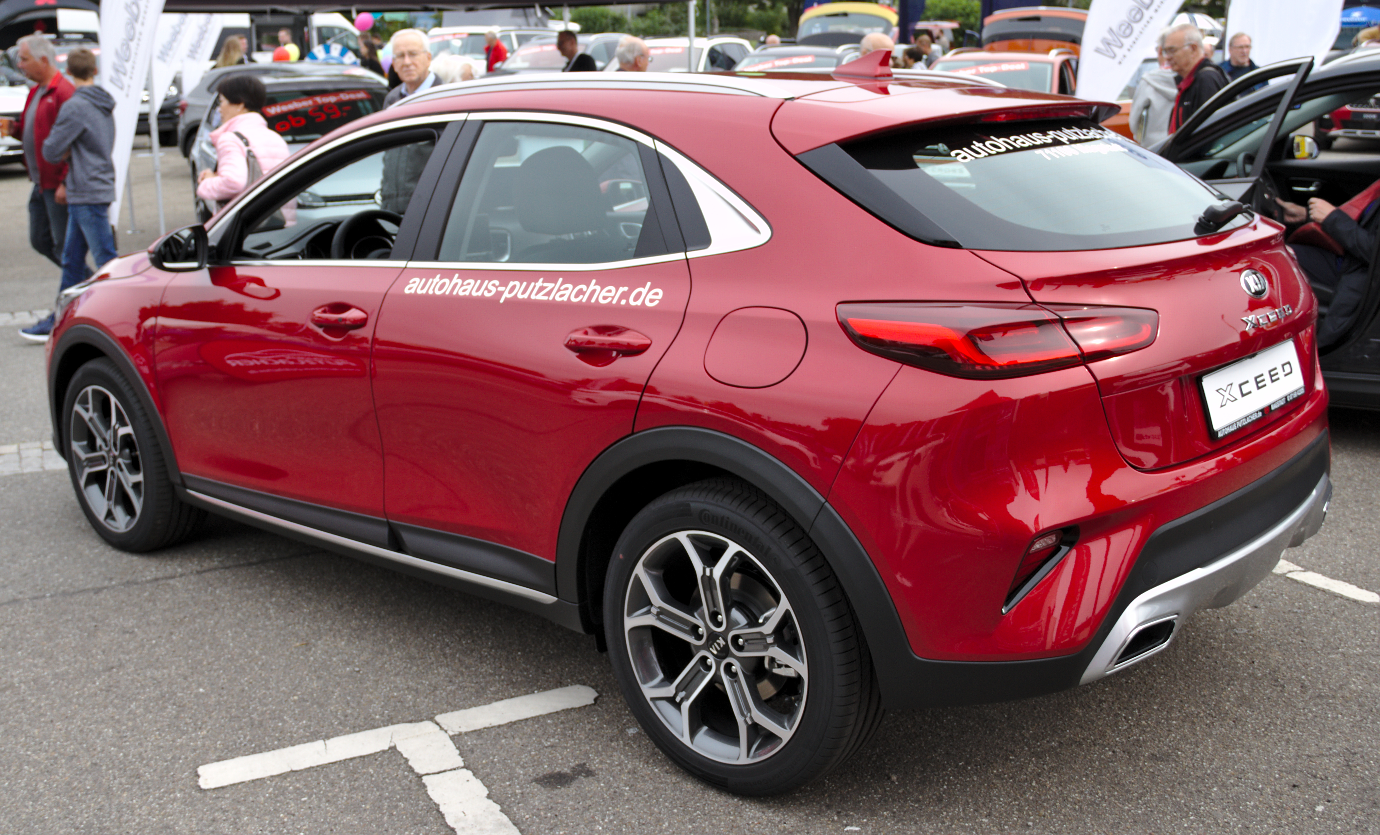 Kia_XCeed at Leonberger Autoschau 2019